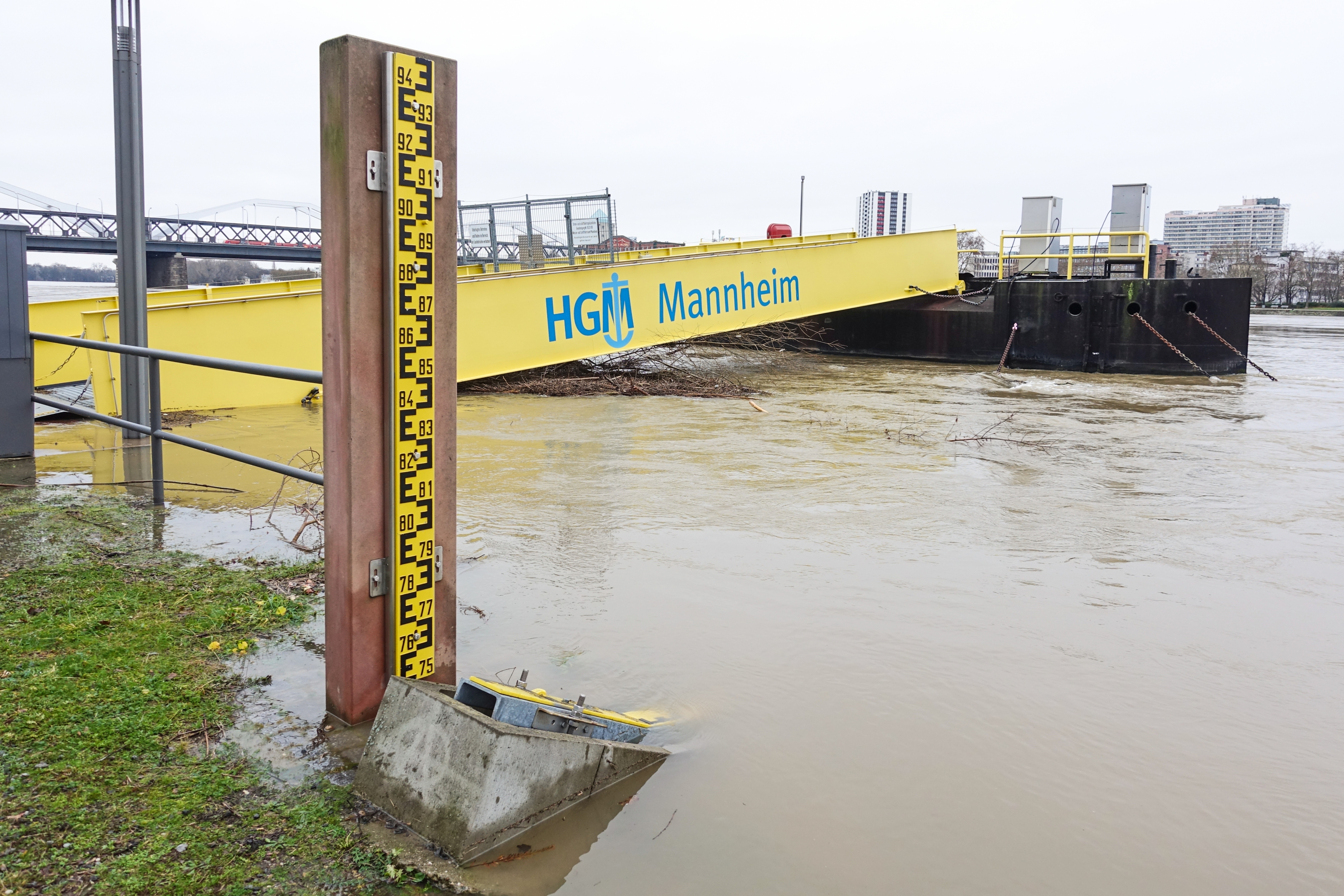 Rhine level marker Mannheim, water level at 7.40 m